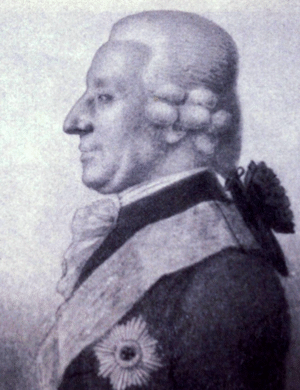 The prussian diplomat Otto Christoph von Podewils (1719-1781)